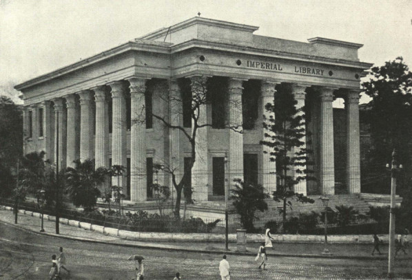 Built after the model of the Town Hall at Ypres. A fine example of the Public Buildings in Calcutta.